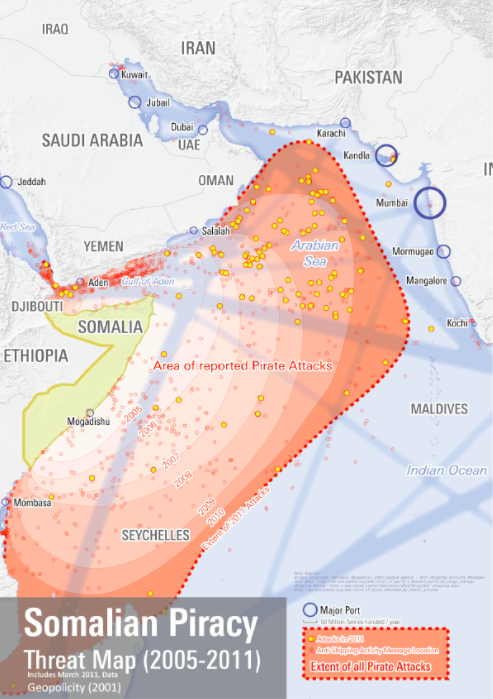 Map of piracy incidence and threat map (2005-2011)